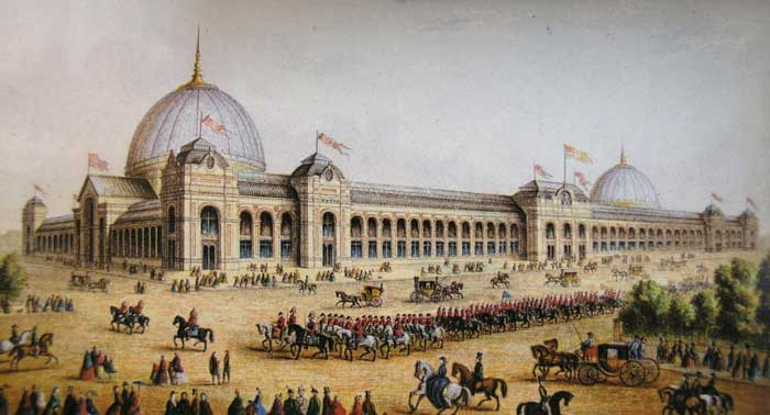 Panoramic view of the International Exhibition of 1862 in South Kensington, London